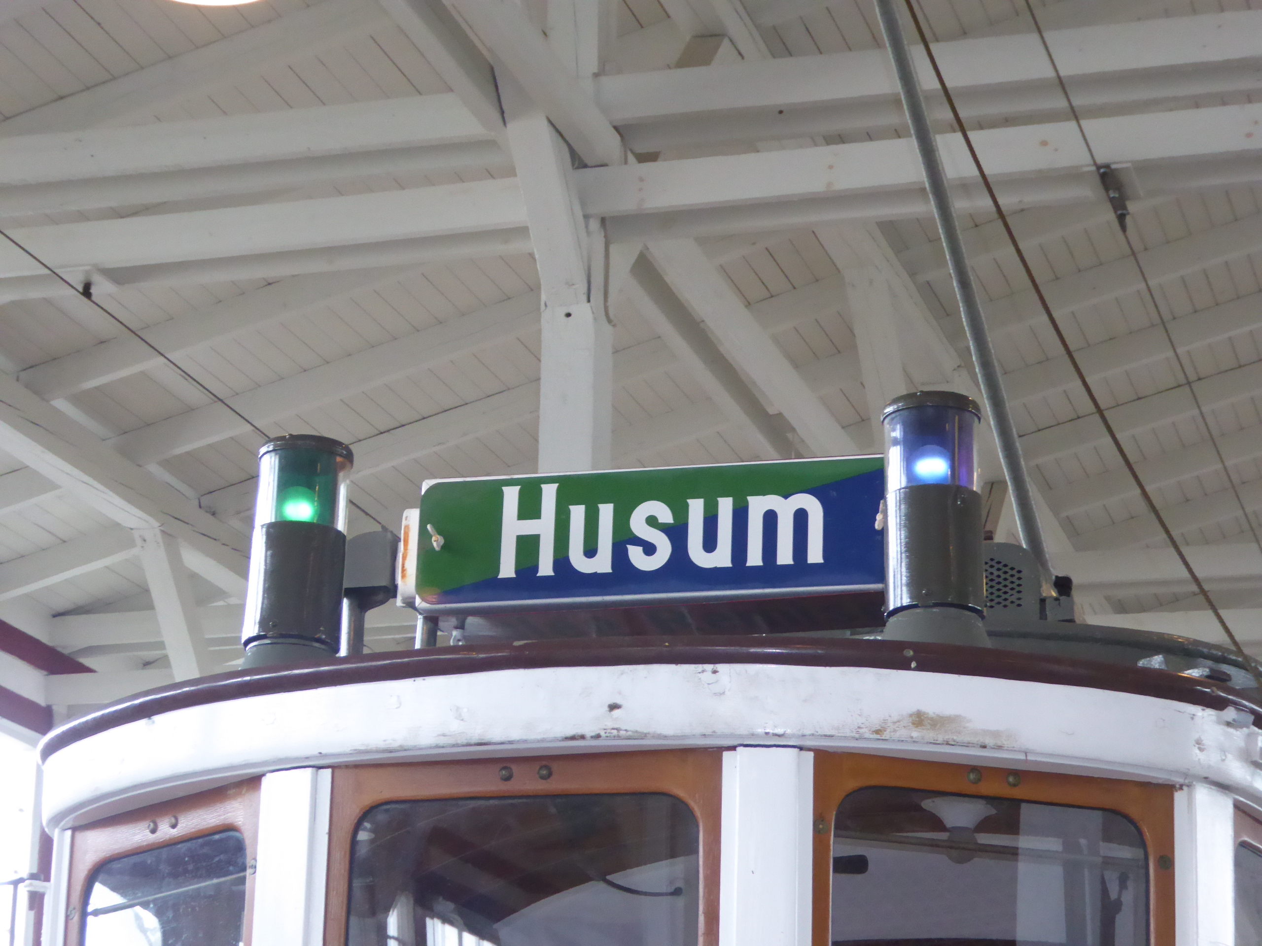 Destination sign and line colors of the Copenhagen tram line 11 on the tram KS 327 at Sporvejsmuseet Skjoldenæsholm in Denmark.